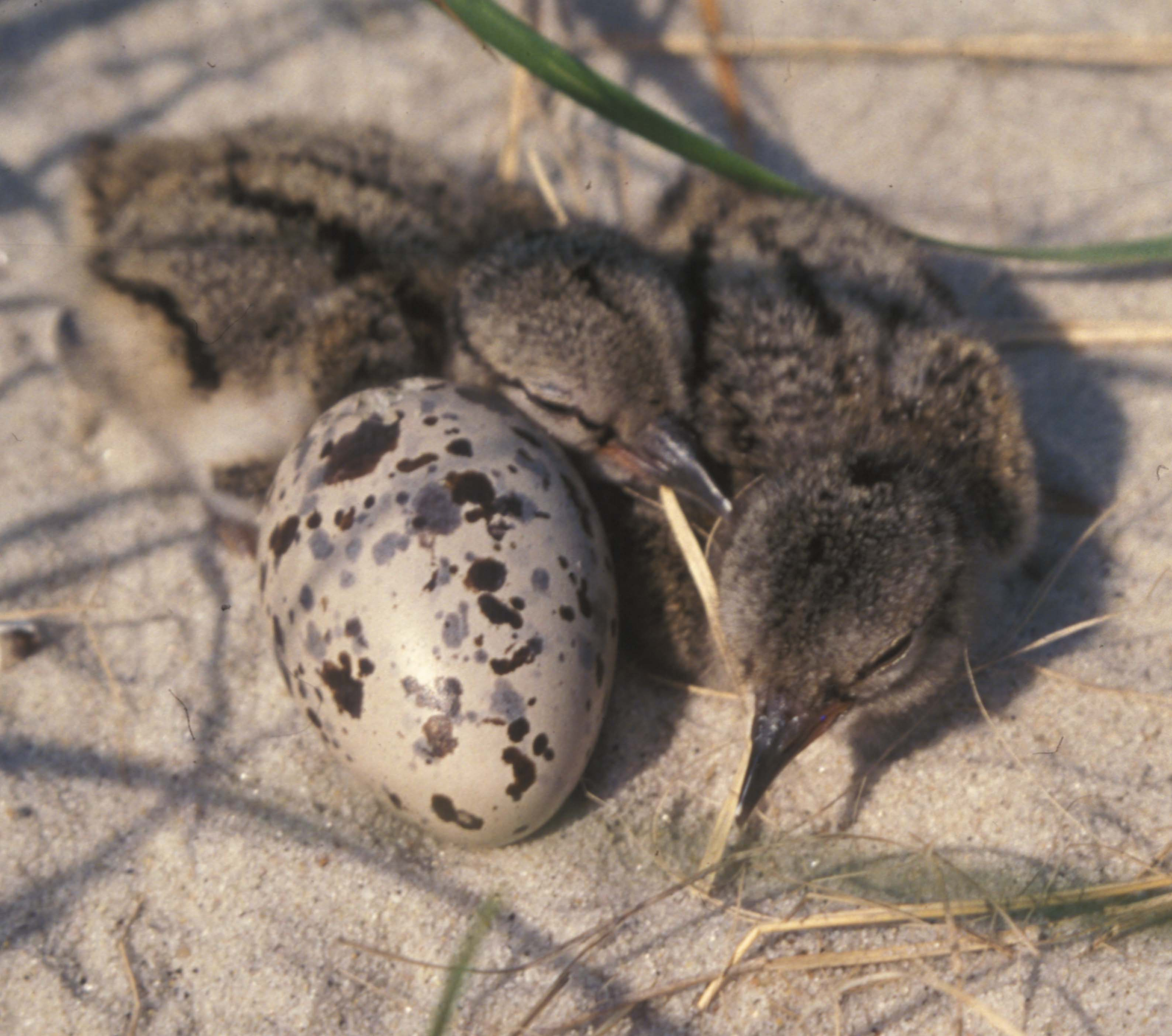 Credit: Stephanie Koch